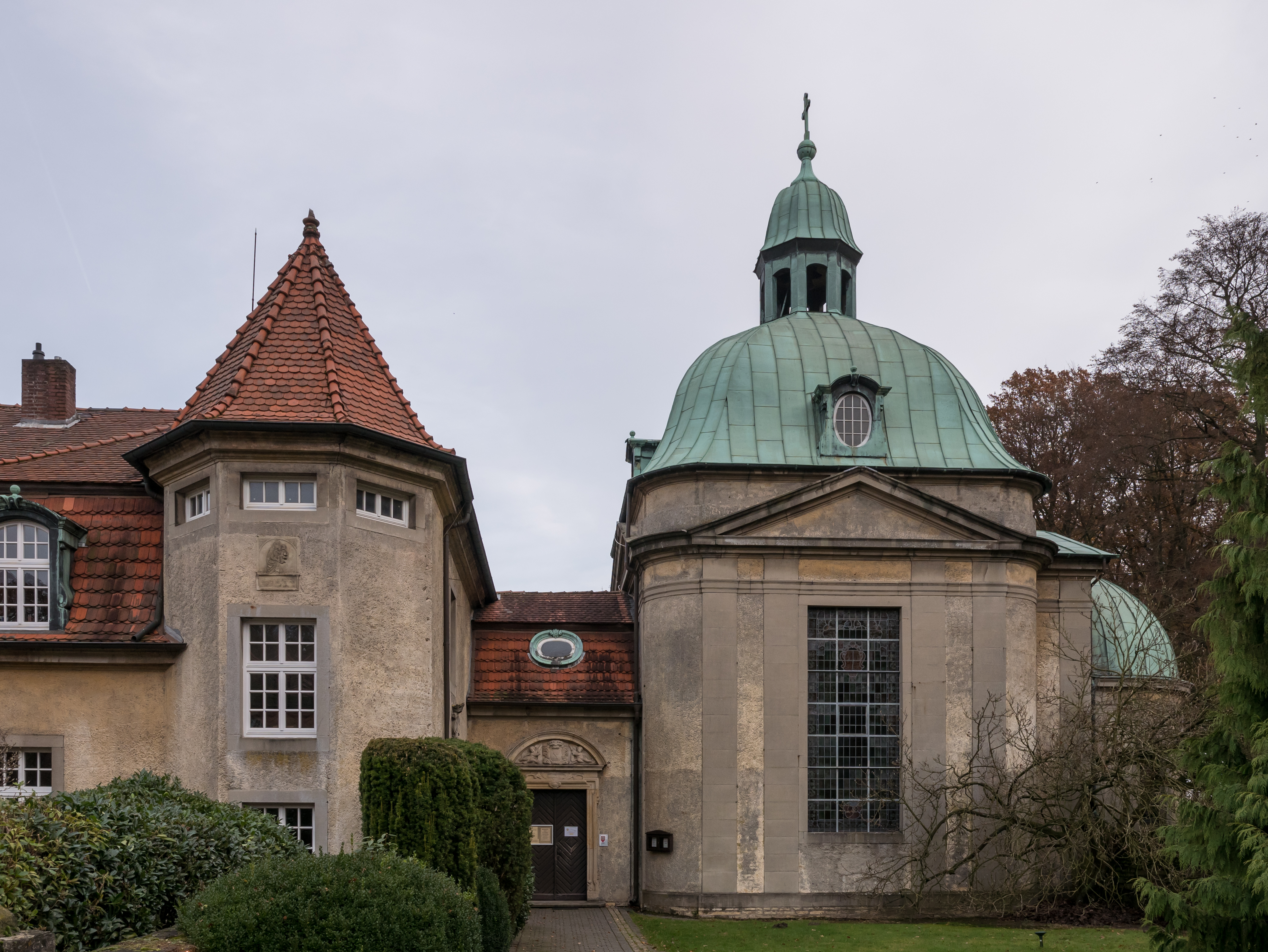 Estate Gut Leye, chapel. Osnabrück-Atter, Lower Saxony, Germany